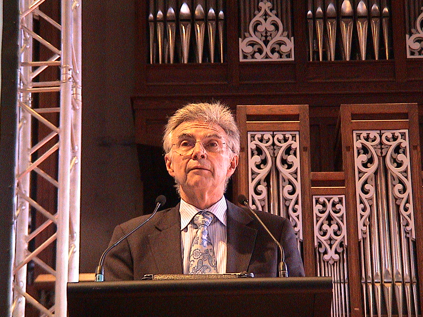 John Hill, M.P., as Minister Assisting the Premier in the Arts, opening the Museums Australia 2012 Conference in Elder Hall at the University of Adelaide, 25 September 2012. Original filename = DSC13789.JPG